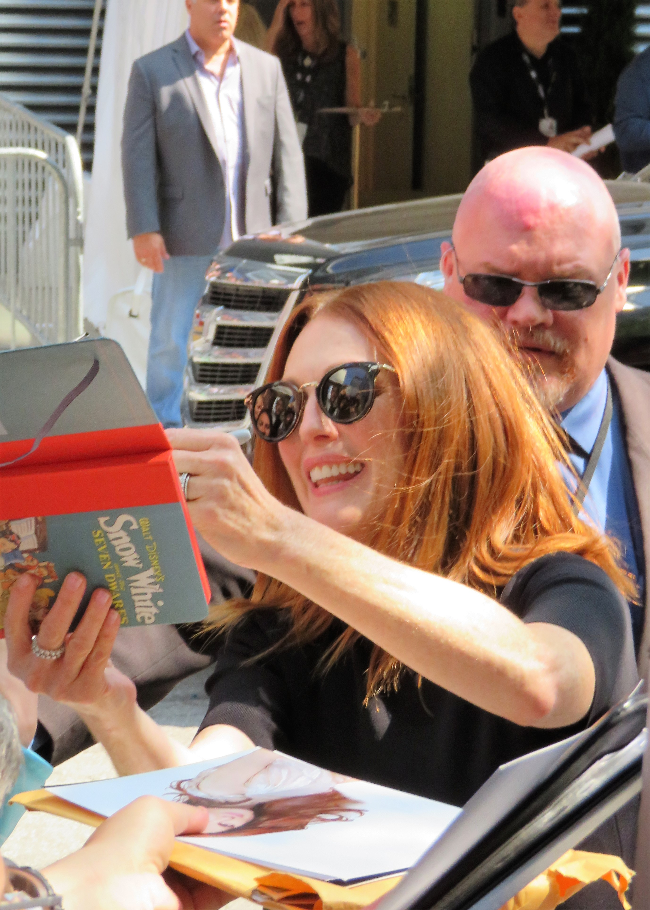 Julianne Moore at the press conference of Suburbicon, 2017 Toronto Film Festival